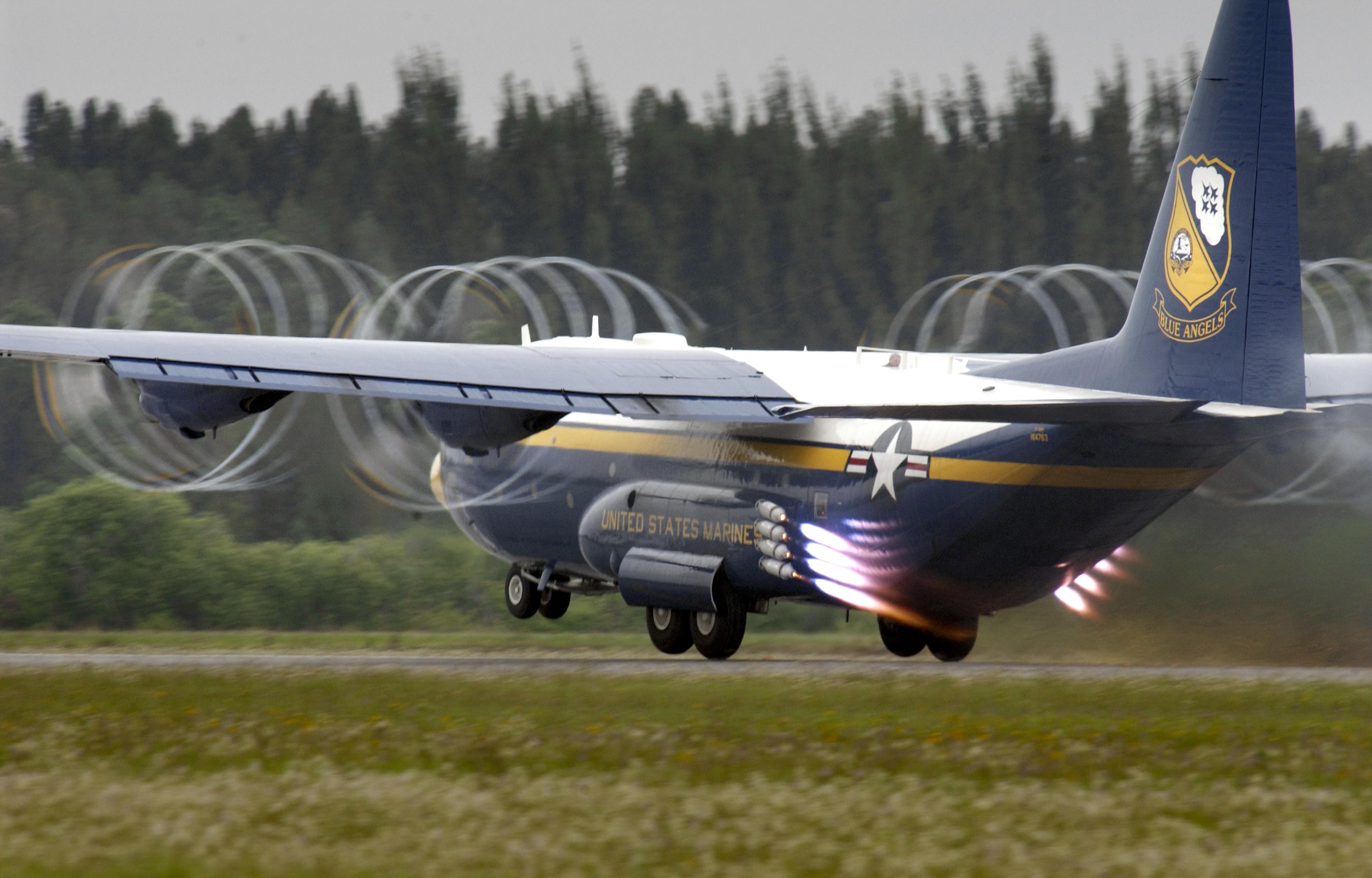 Punta Gorda, Fla. (Mar. 24, 2003) - "Fat Albert", a U.S. Marine Corps C-130 Hercules assigned to the Navy's Flight Demonstration Team, "Blue Angels" ignites its Jet Assisted Take Off (JATO) bottles on take-off. The eight JATO rockets give "Fat Albert" an extra 8,000 pounds of thrust and can shorten the distance of take-off. U.S. Navy photo by Photographer's Mate 2nd Class Saul McSween. (RELEASED)